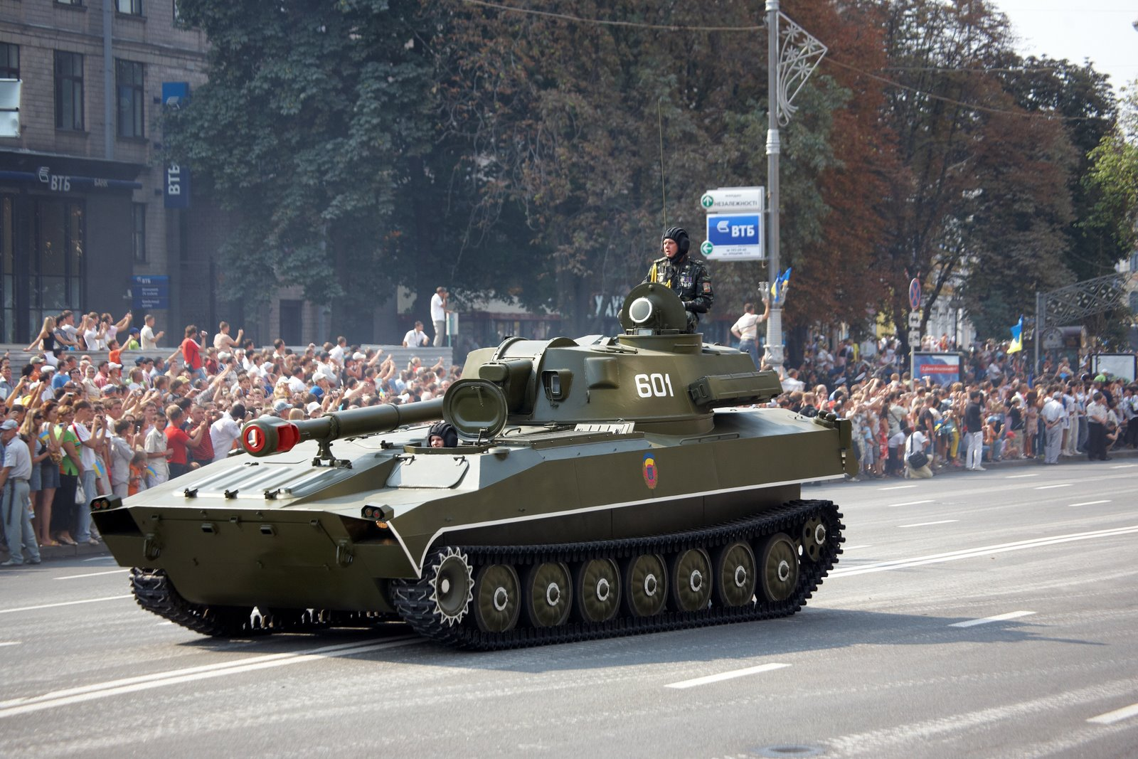 Ukrainian 2S1 Gvozdika self-propelled howitzer during the Independence Day parade in Kiev, Ukraine in 2008.